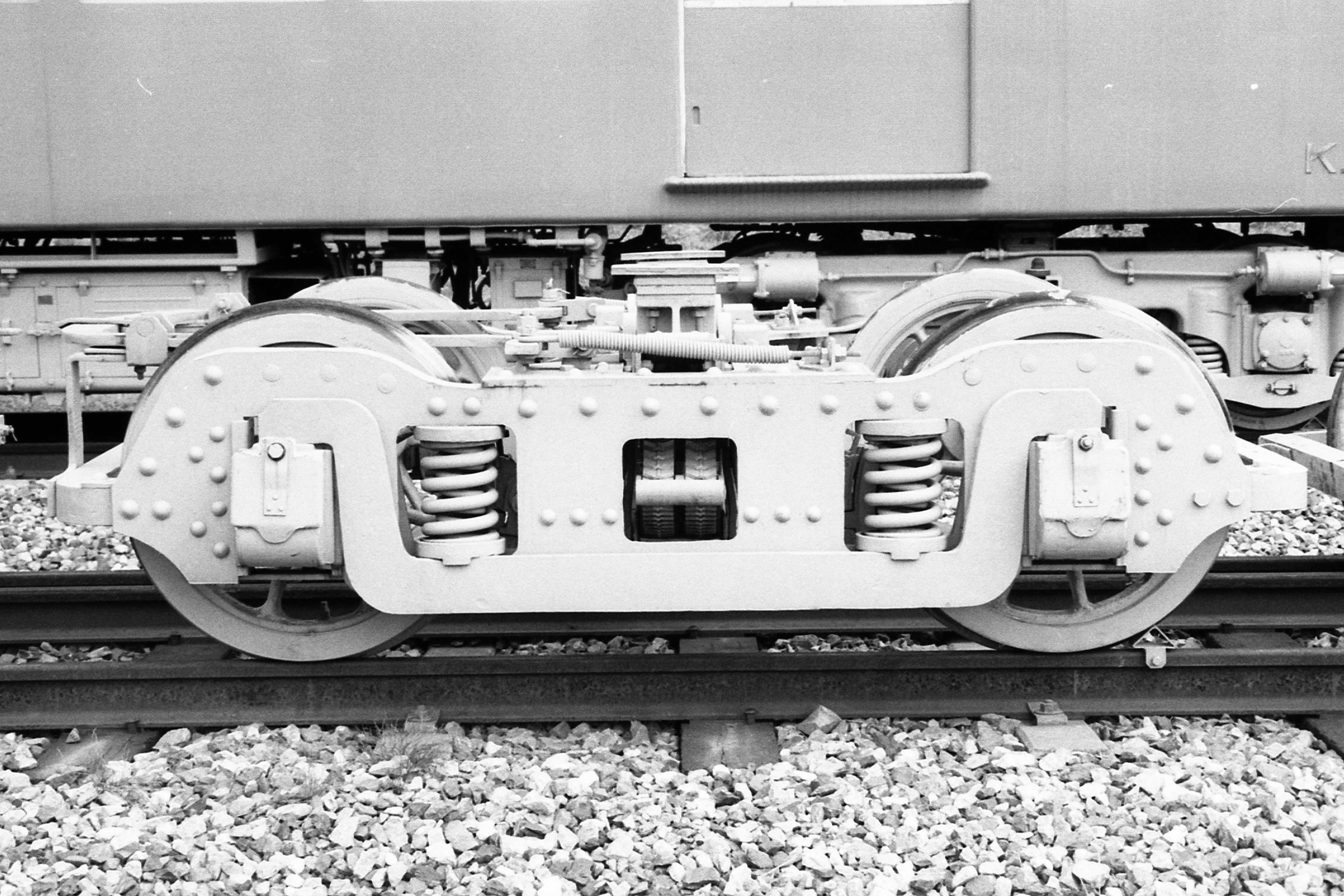 Amemiya H-1 bogie truck for Keio DECHI 270 preserved at Wakabadai Depot